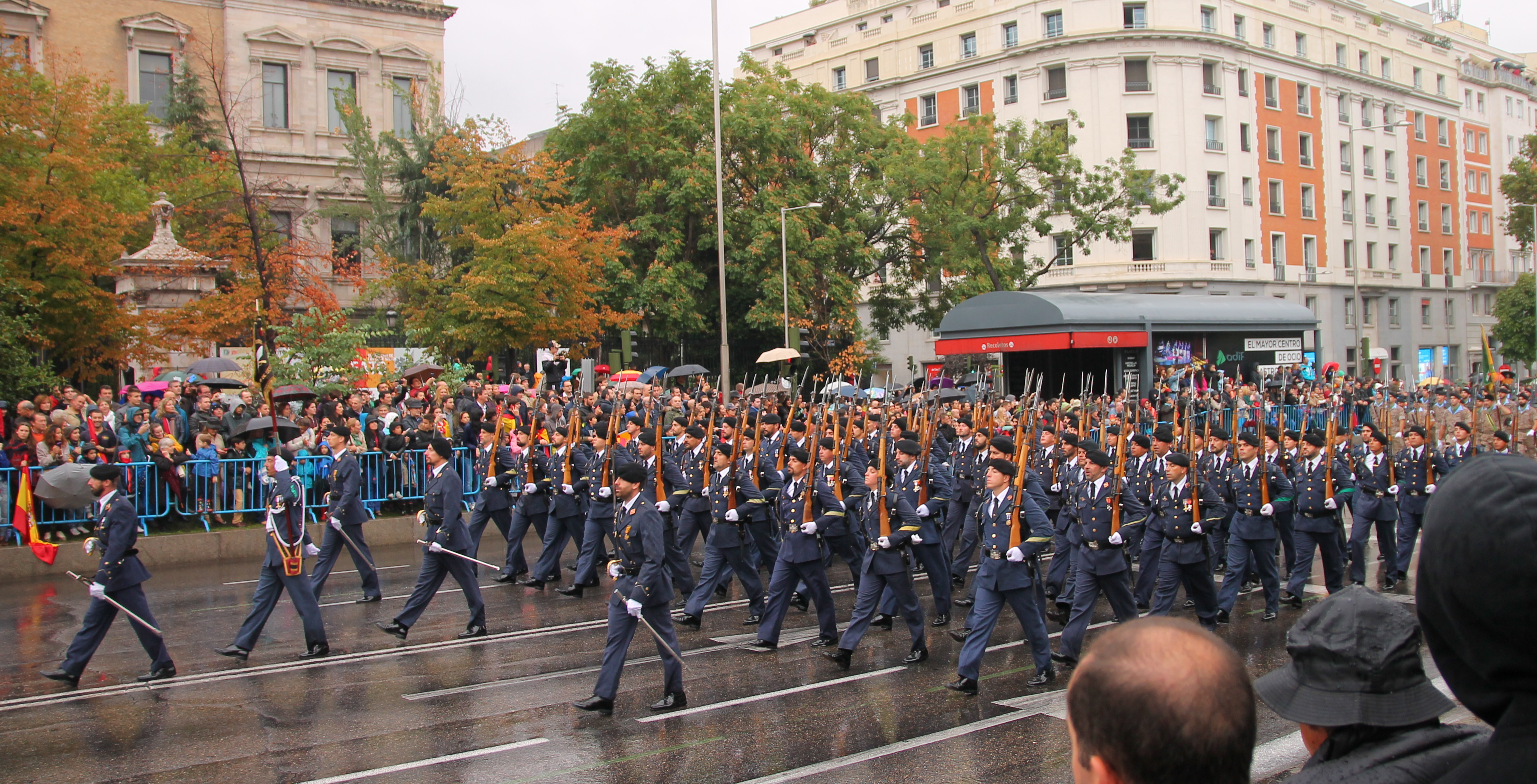 Military parade on Spanish national holiday, October 12th, 2016